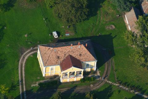 Szamosangyalos, Hungary, aerialphotography (Domahidy Mansion) This is a photo of a monument in Hungary, Identifier: 8442